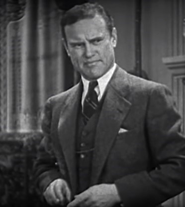 Warner Richmond in Corruption (1933) - cropped screenshot